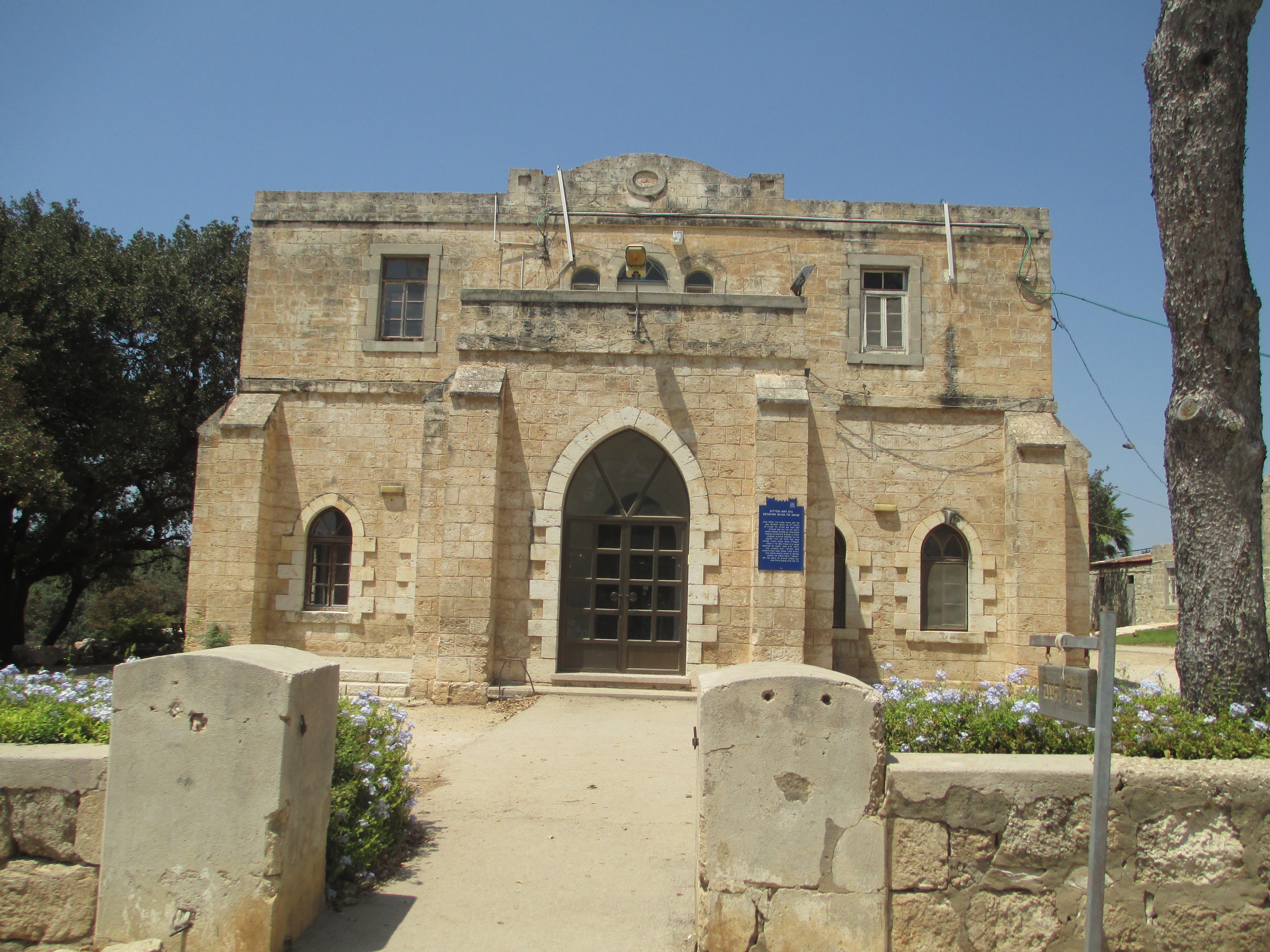 Bethlehem of Galilee - community center